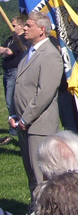 Trivimi Velliste at meeting of Estonian WWII veterans on Blue Hills, 2008.